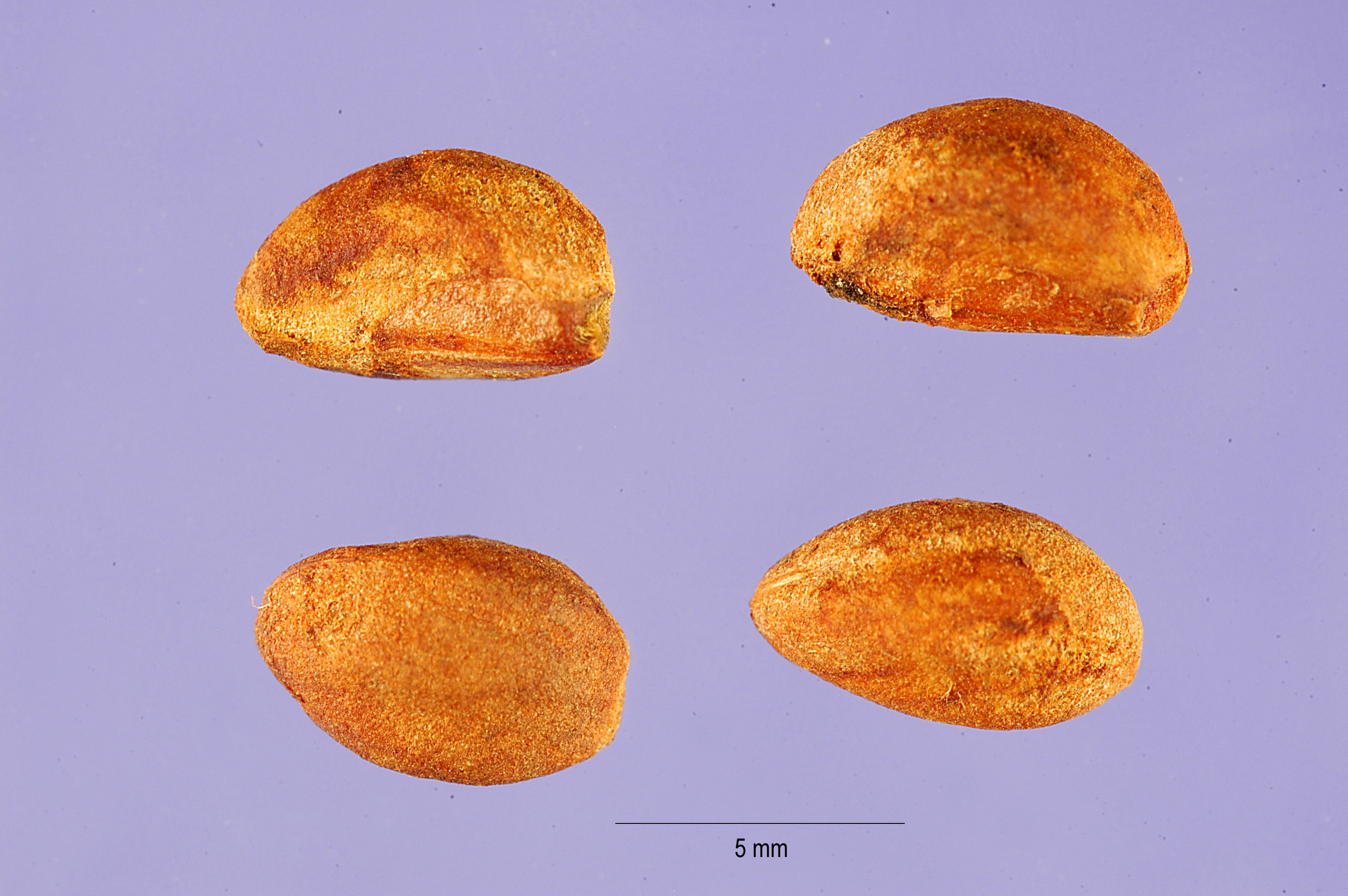 seeds of Crataegus punctata Provided by ARS Systematic Botany and Mycology Laboratory. United Kingdom, England, Kew